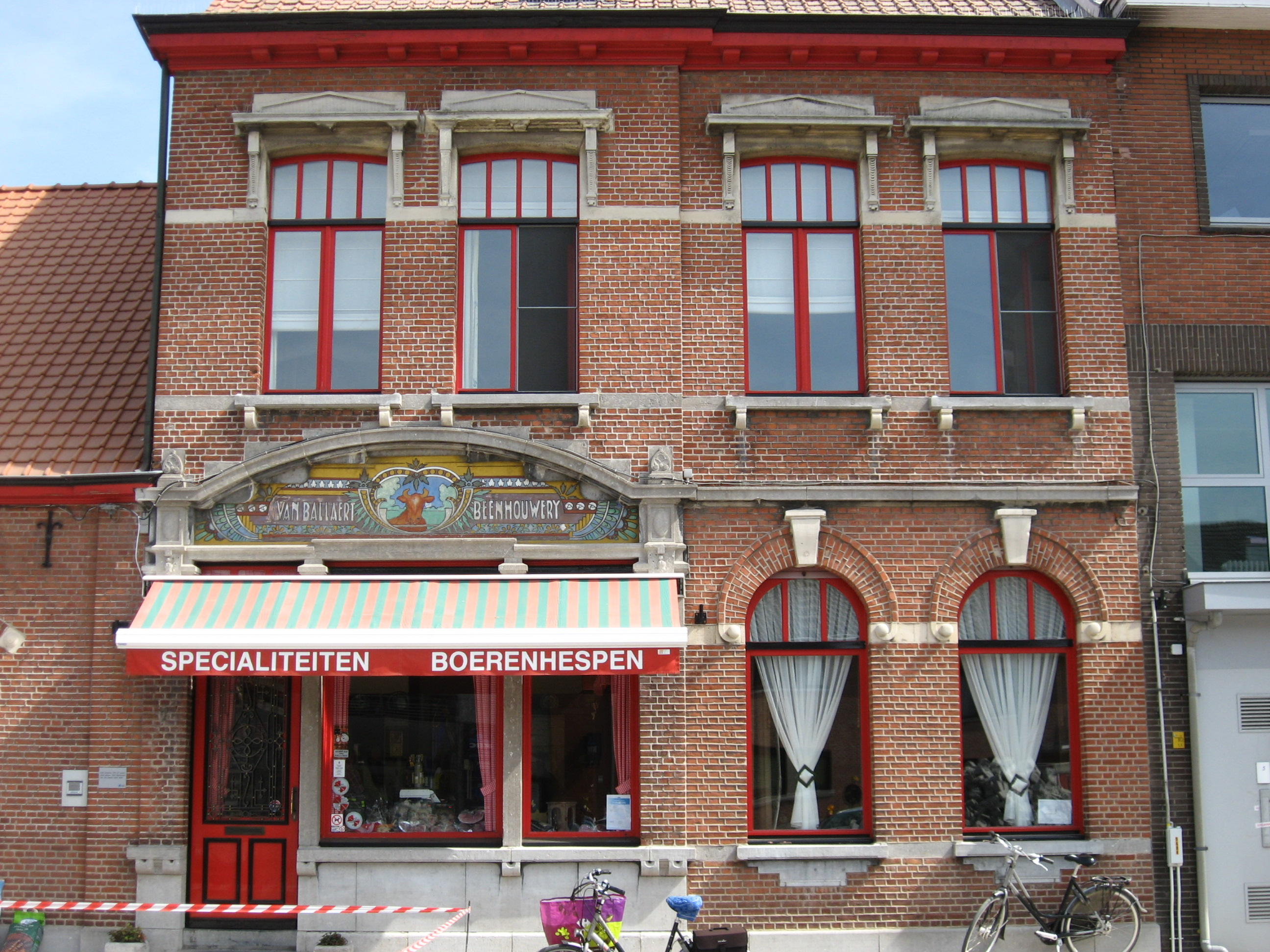 Butcherschop in Brecht